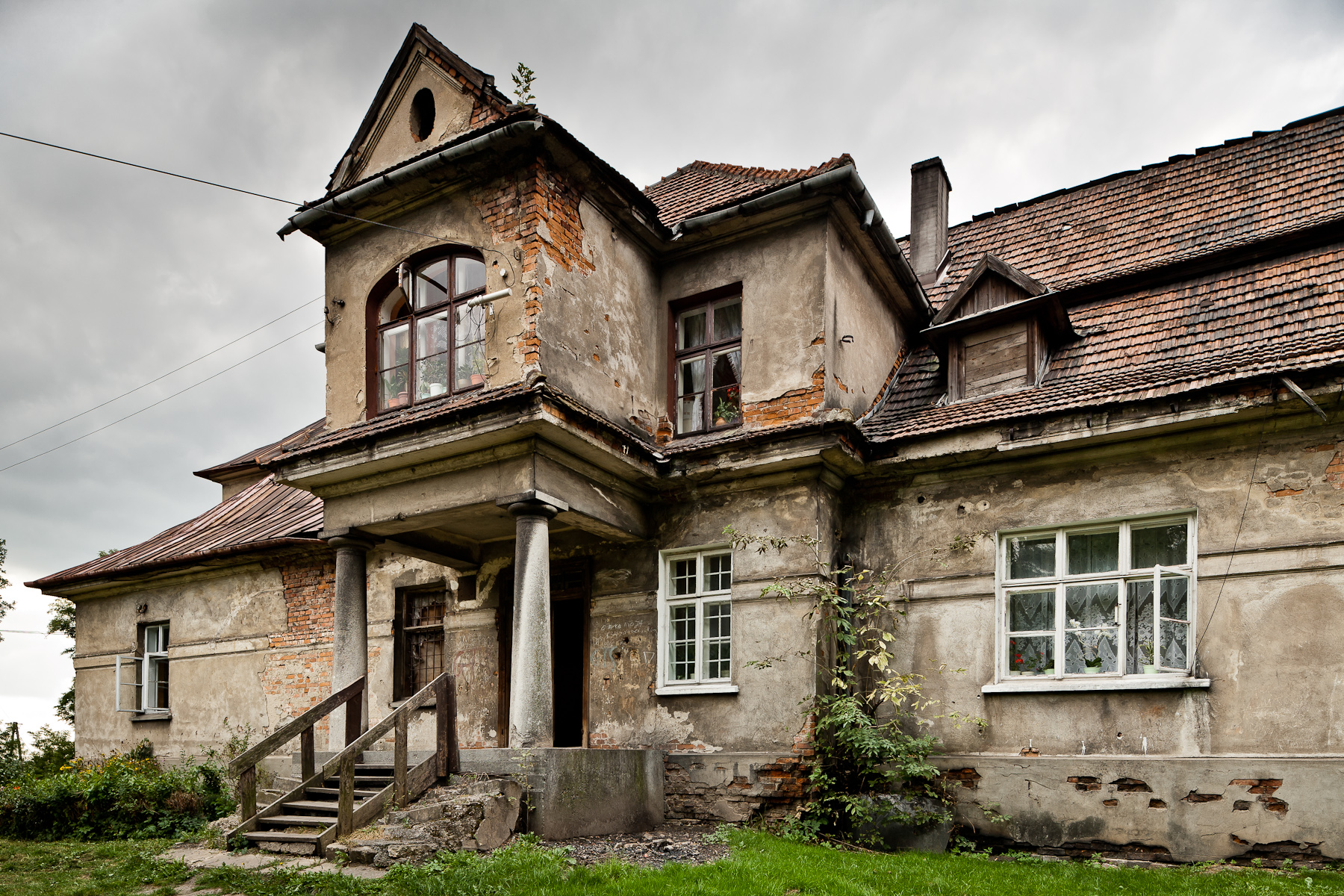 The main entrance to a manor in Baranówka in the Małopolska (Lesser Poland) province